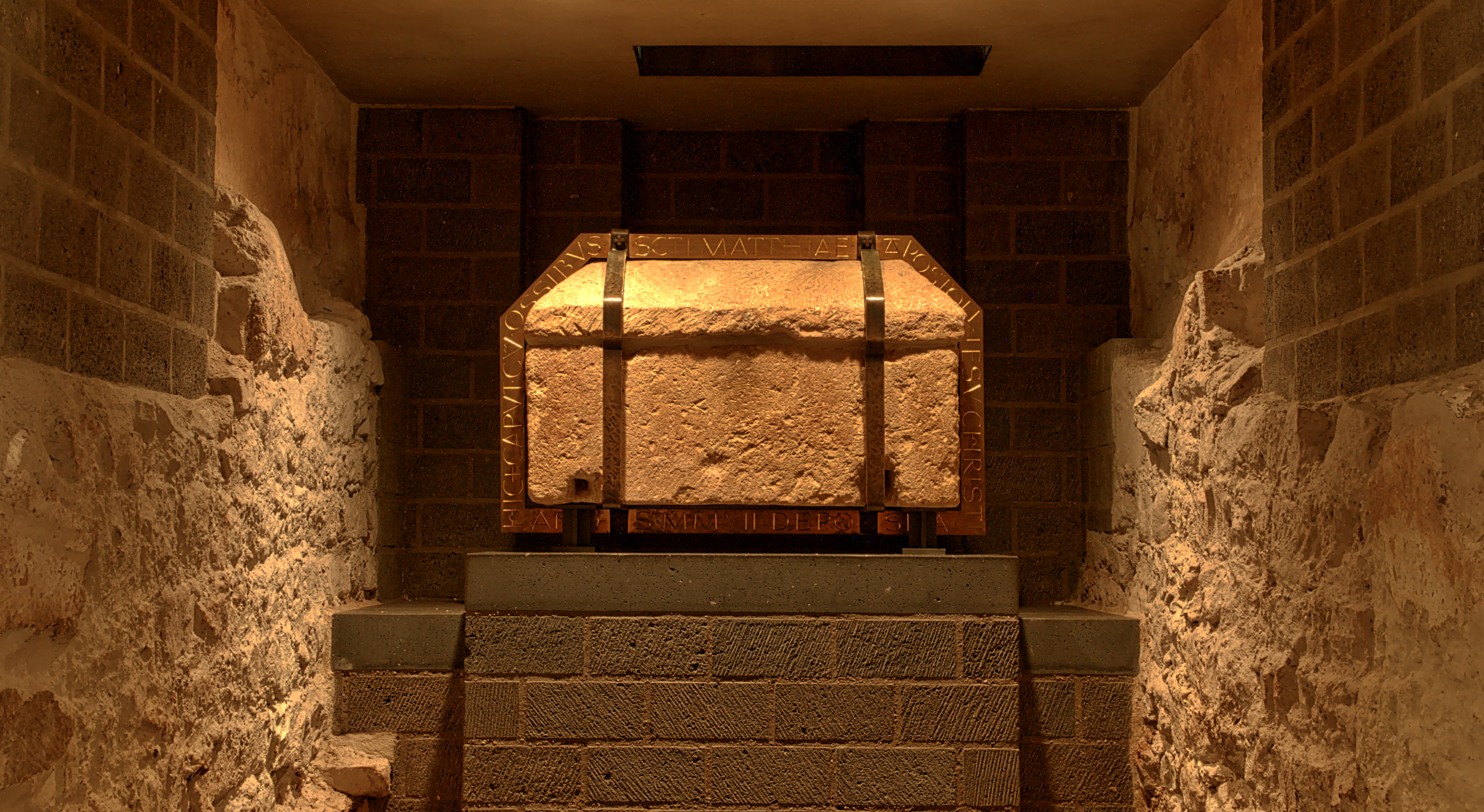 Sarcophago of Apostle St. Mattias - Basilika St. Matthias, Trier, Germany